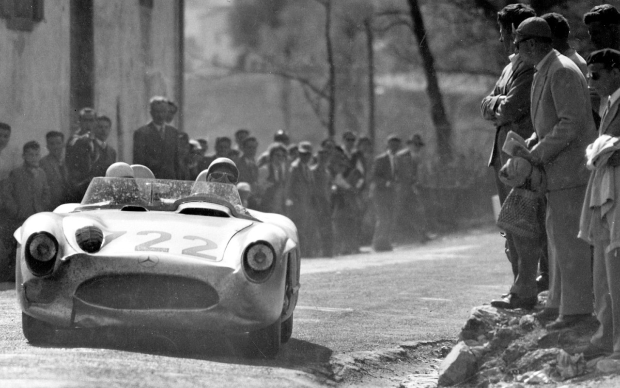 1955 Mille Miglia winners Stirring Moss e Denis Jenkinson in Mercedes 300 SLR